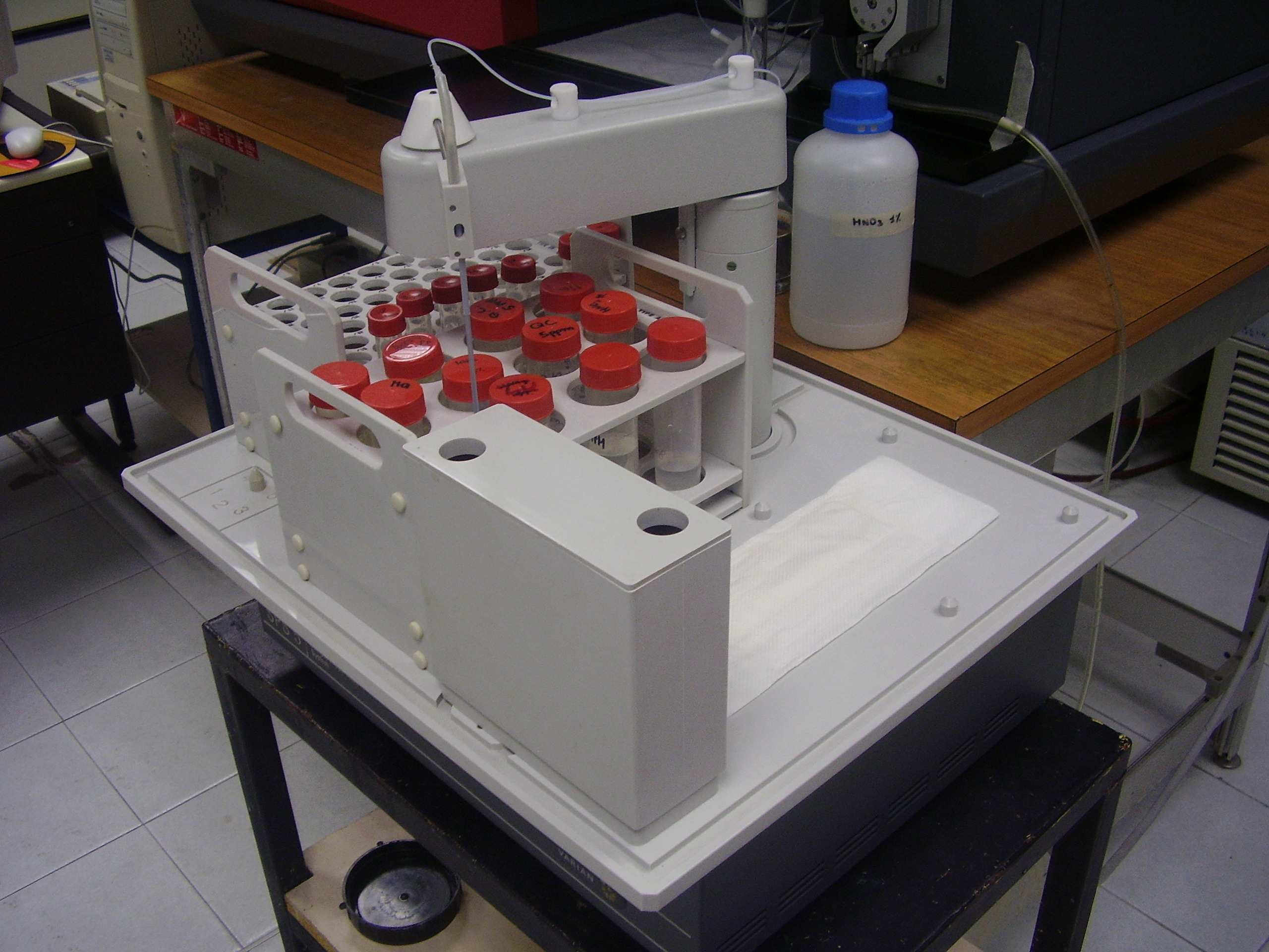 ICP-OES autosampler